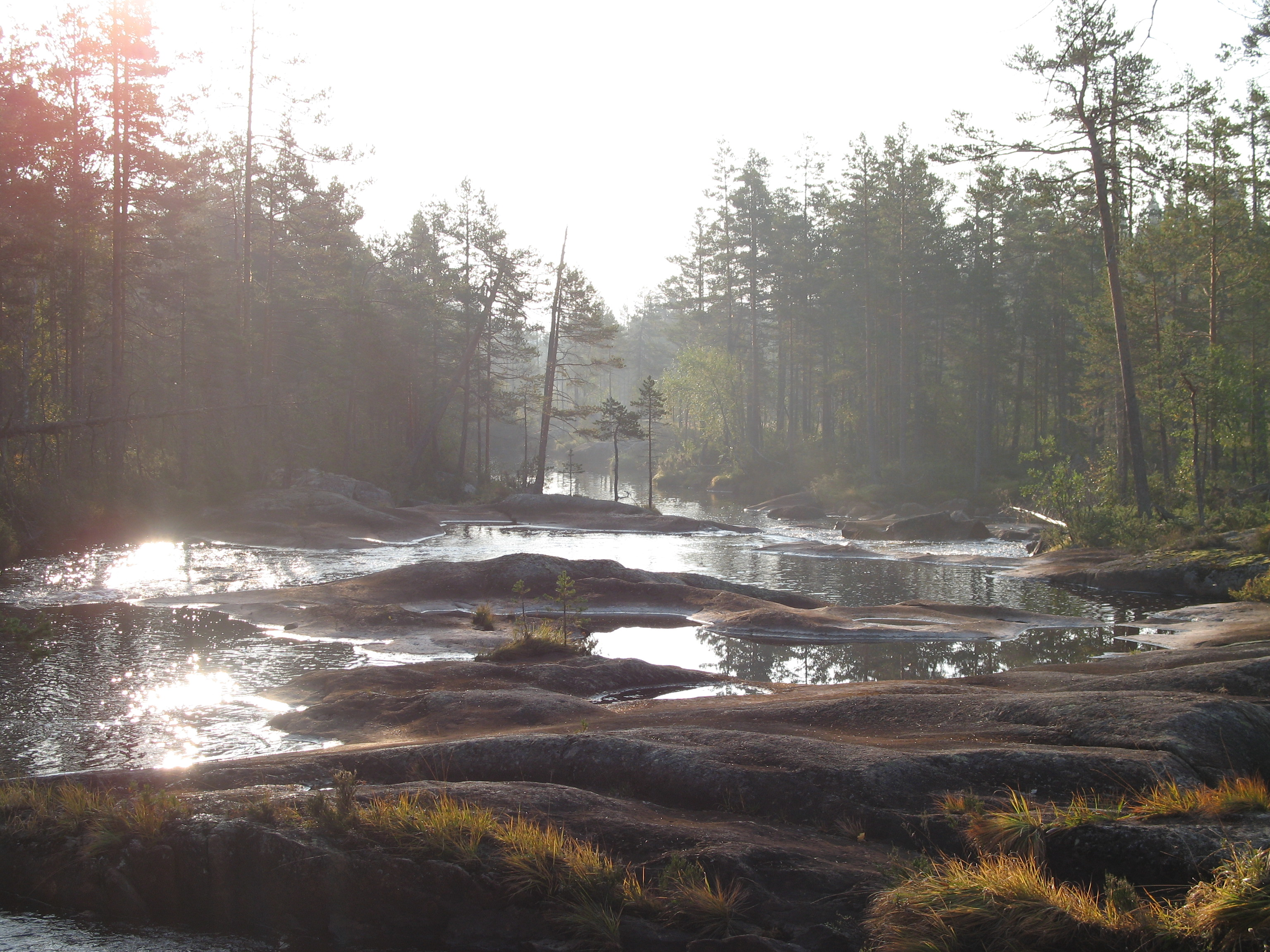 Svartån river, in Hamra national park